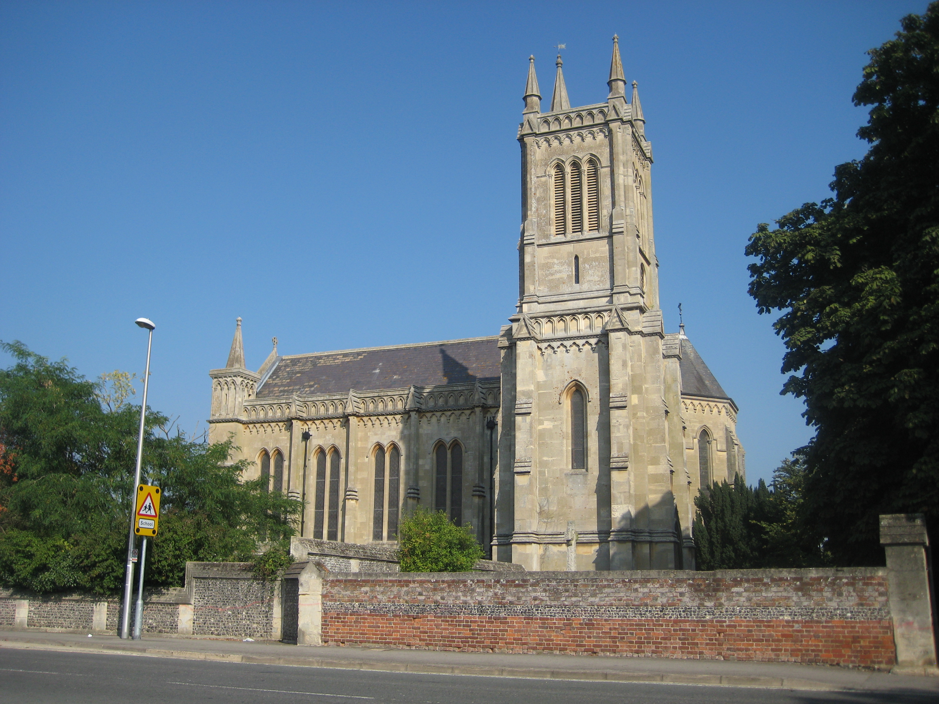 Holy Trinity parish church, Theale, Berkshire, seen from the south